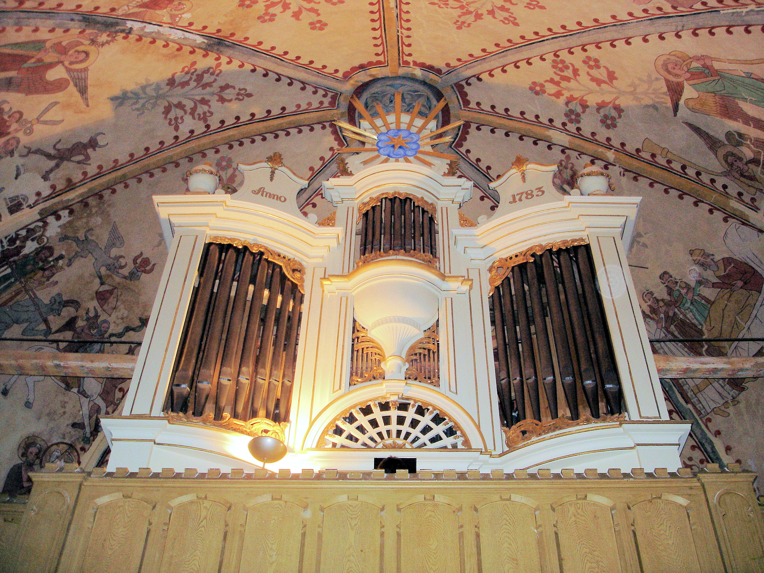 Fresco in the church in Petschow, Mecklenburg, Germany